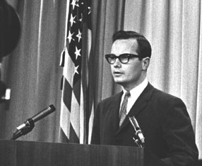 Bill Moyers 1965